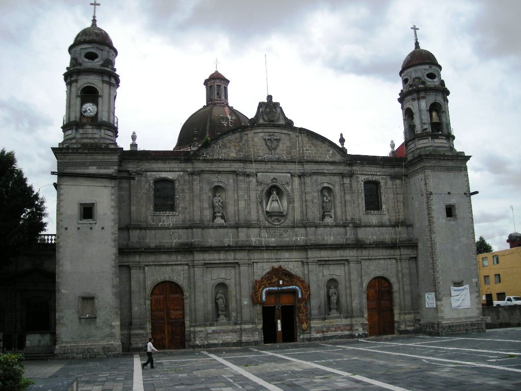 Facade of the Parish of La Soledad in the historic center of Mexico City